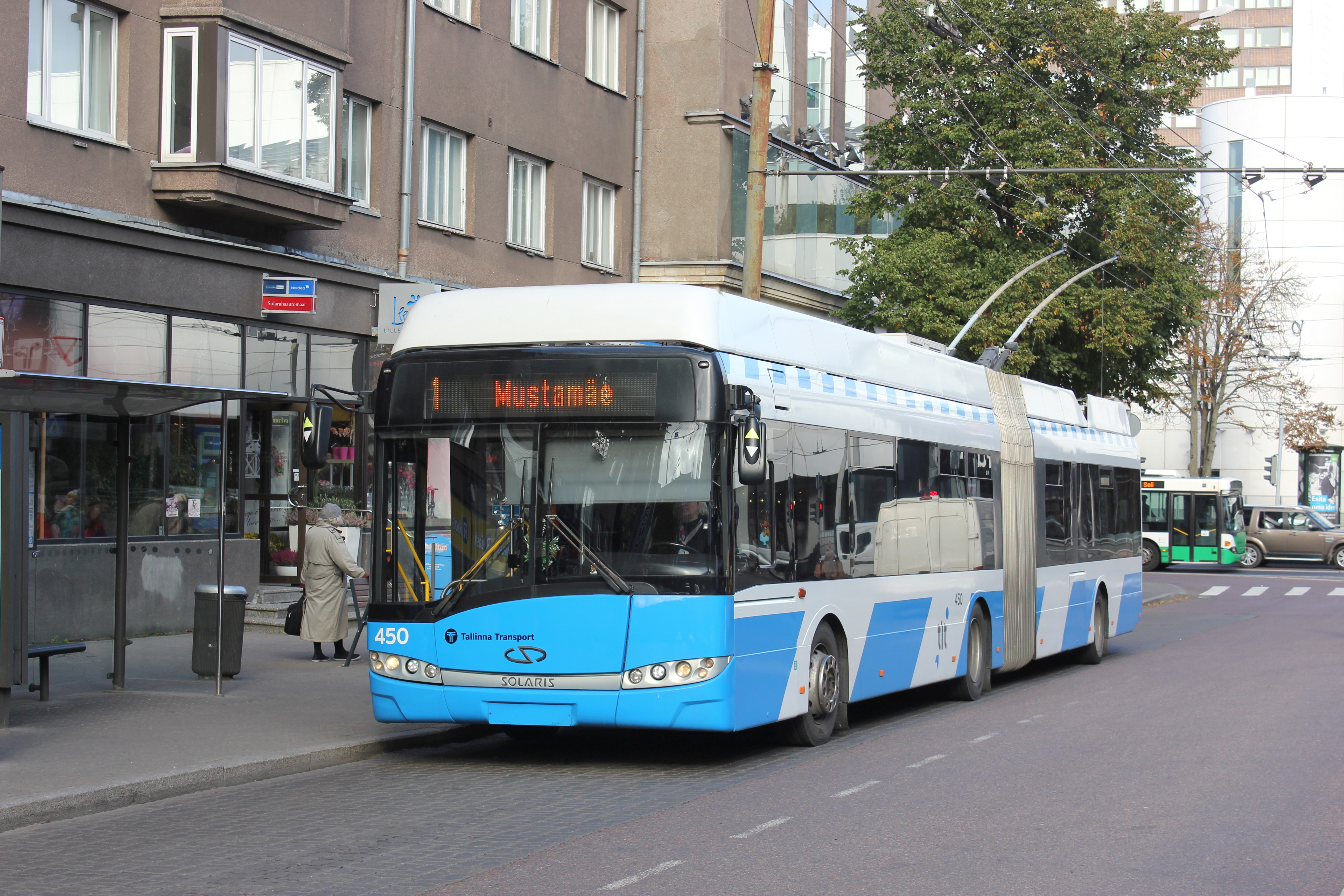 Tallinn - Solaris Trollino 18 trolleybus #450 on line No. 1